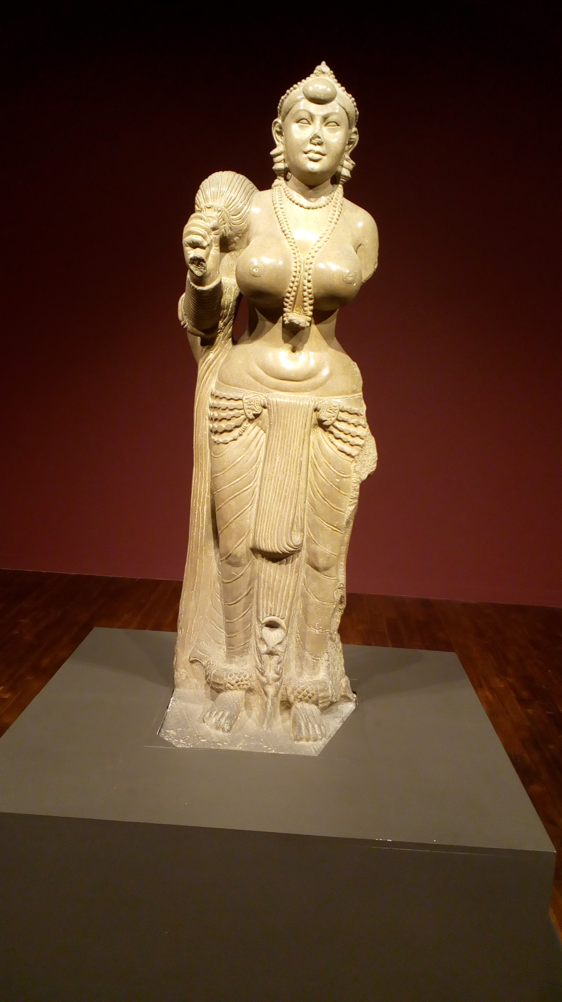 Bihar Museum (Hindi: बिहार संग्रहालय) is a modern state of the art museum located in Patna.